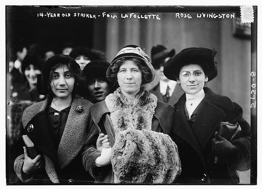 Photograph shows suffrage and labor activist Flora Dodge "Fola" La Follette (1882-1970), social reformer and missionary Rose Livingston and a young striker during a garment strike in New York City in 1913. (Source: Flickr Commons project, 2011)